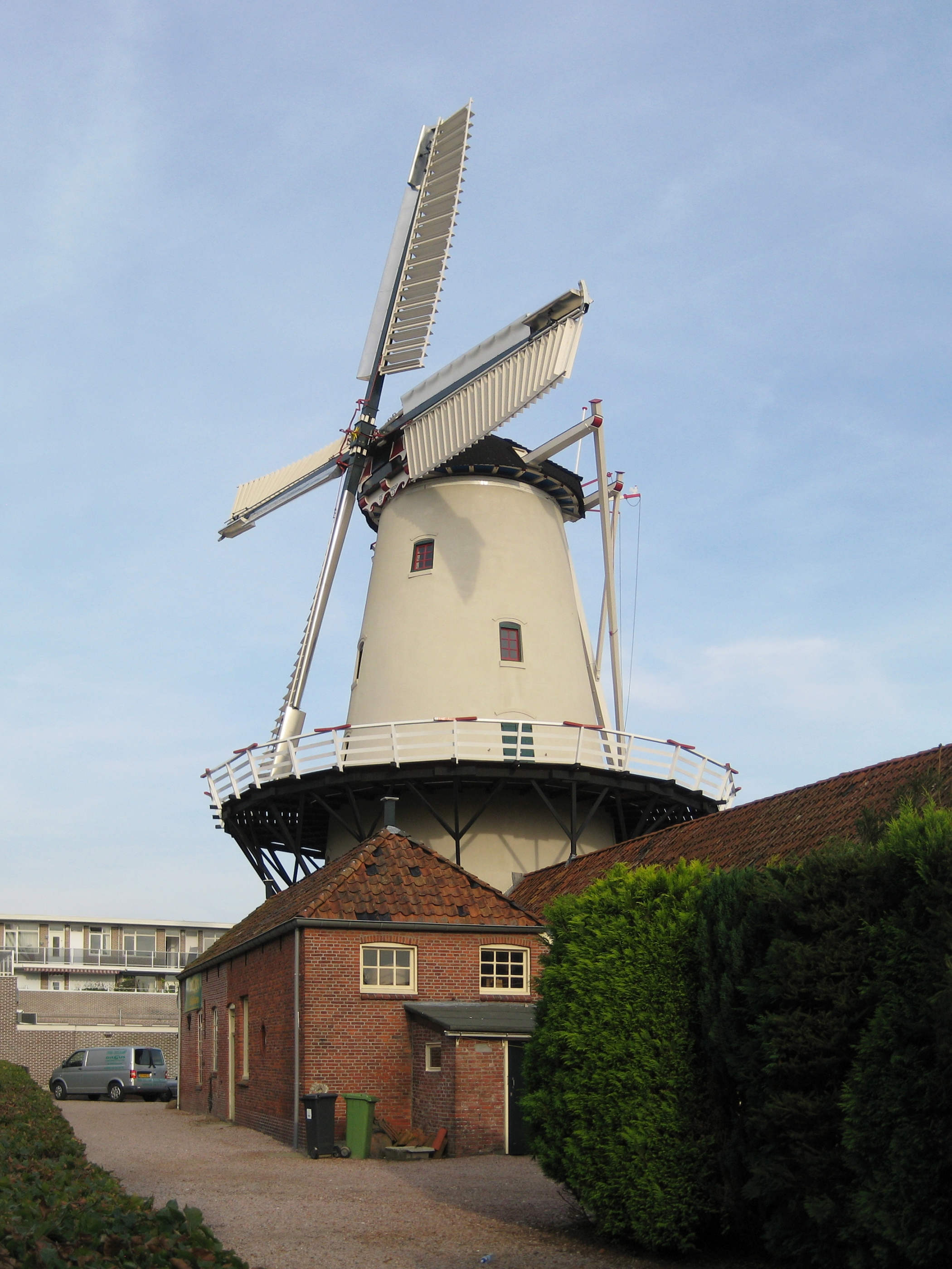 Windmill De Hoop (1839) in Haren, a village in the Dutch province of Groningen.